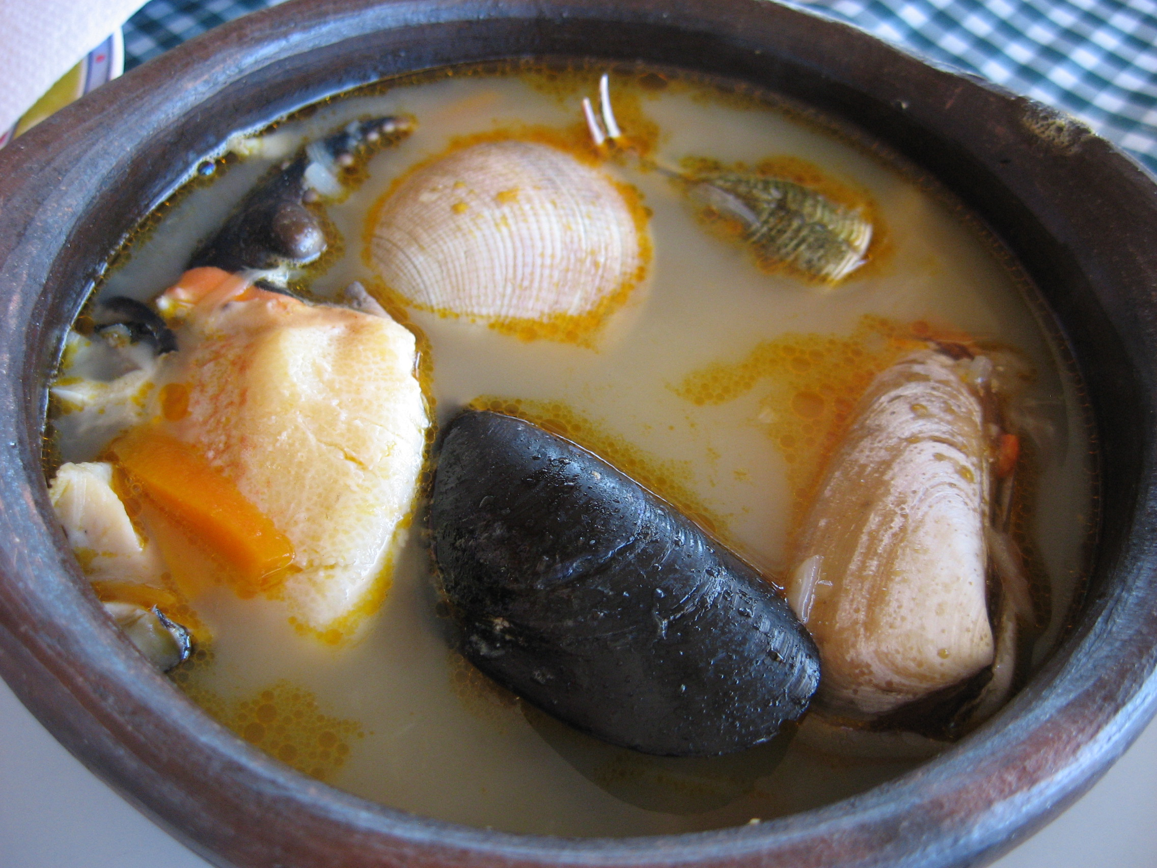 Paila marina, typical Chilean dish containing various kinds of seafood. Clockwise from the top: clams, barnacles, macha, mussels, crab (macha is a chilean native bivalve).